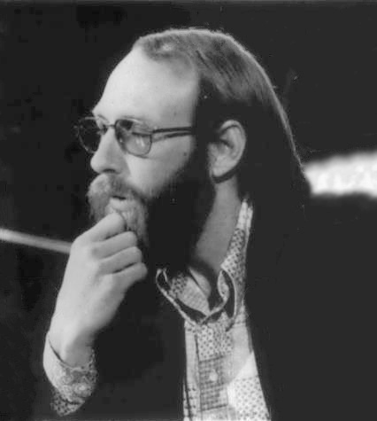 1973 Press Photo Past Olympic athlete, Phil Shinnick testifies before Senate